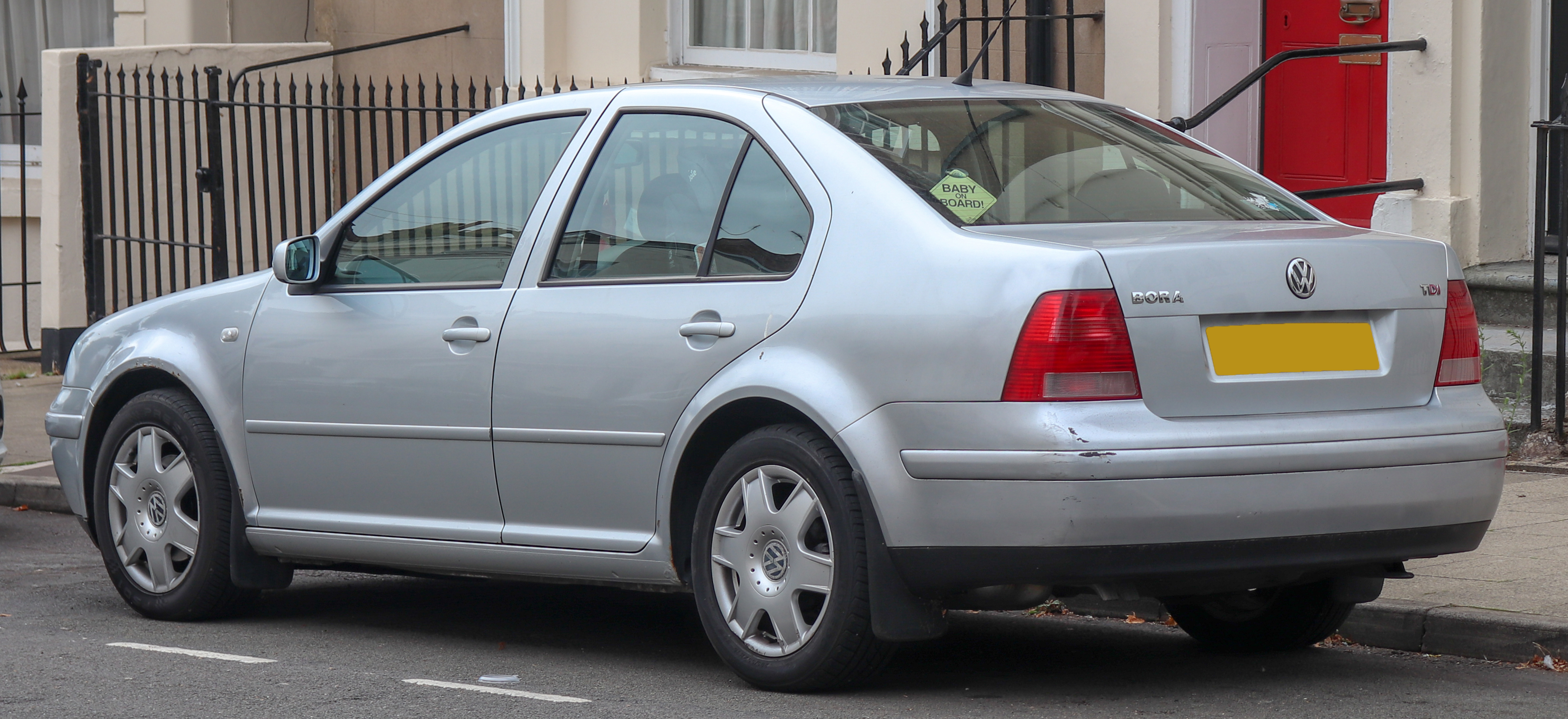 2004 Volkswagen Bora TDi SE 1.9 Rear Taken in Leamington Spa